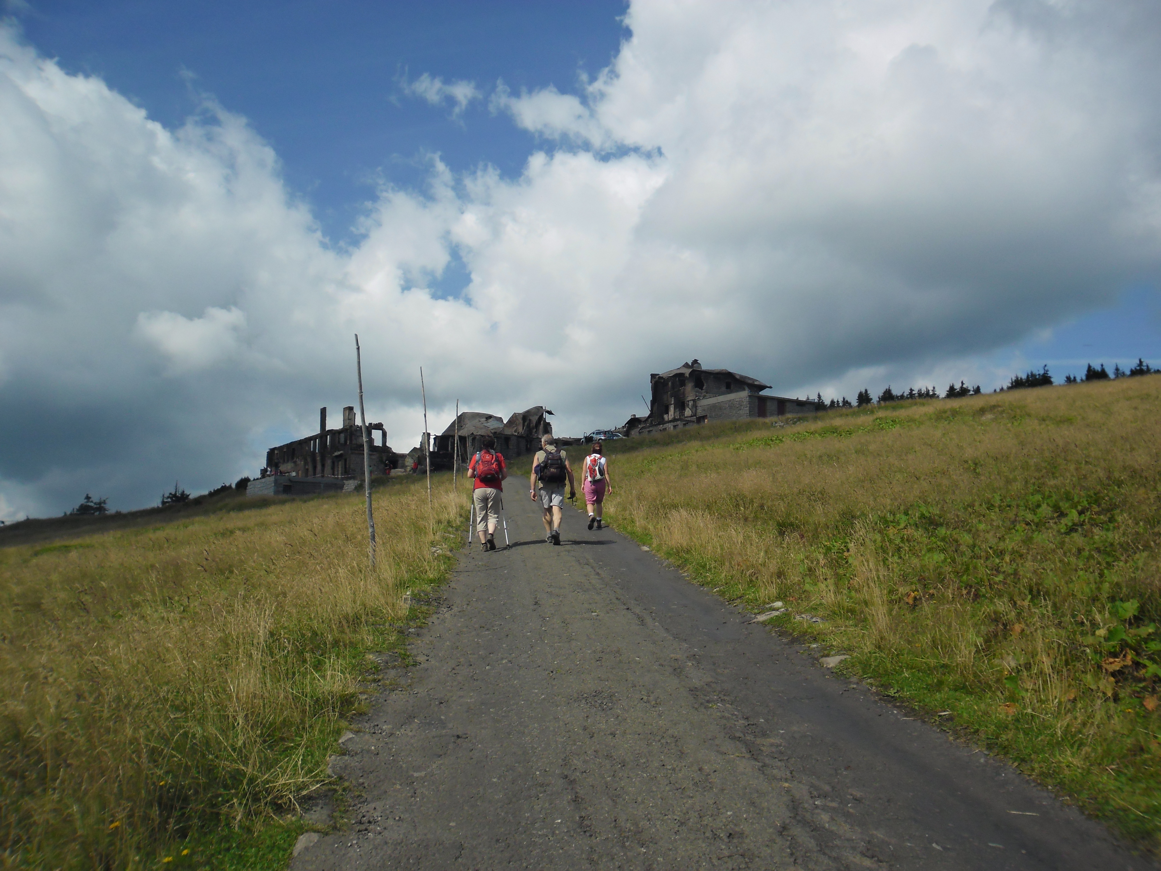 Petrova bouda after burning out